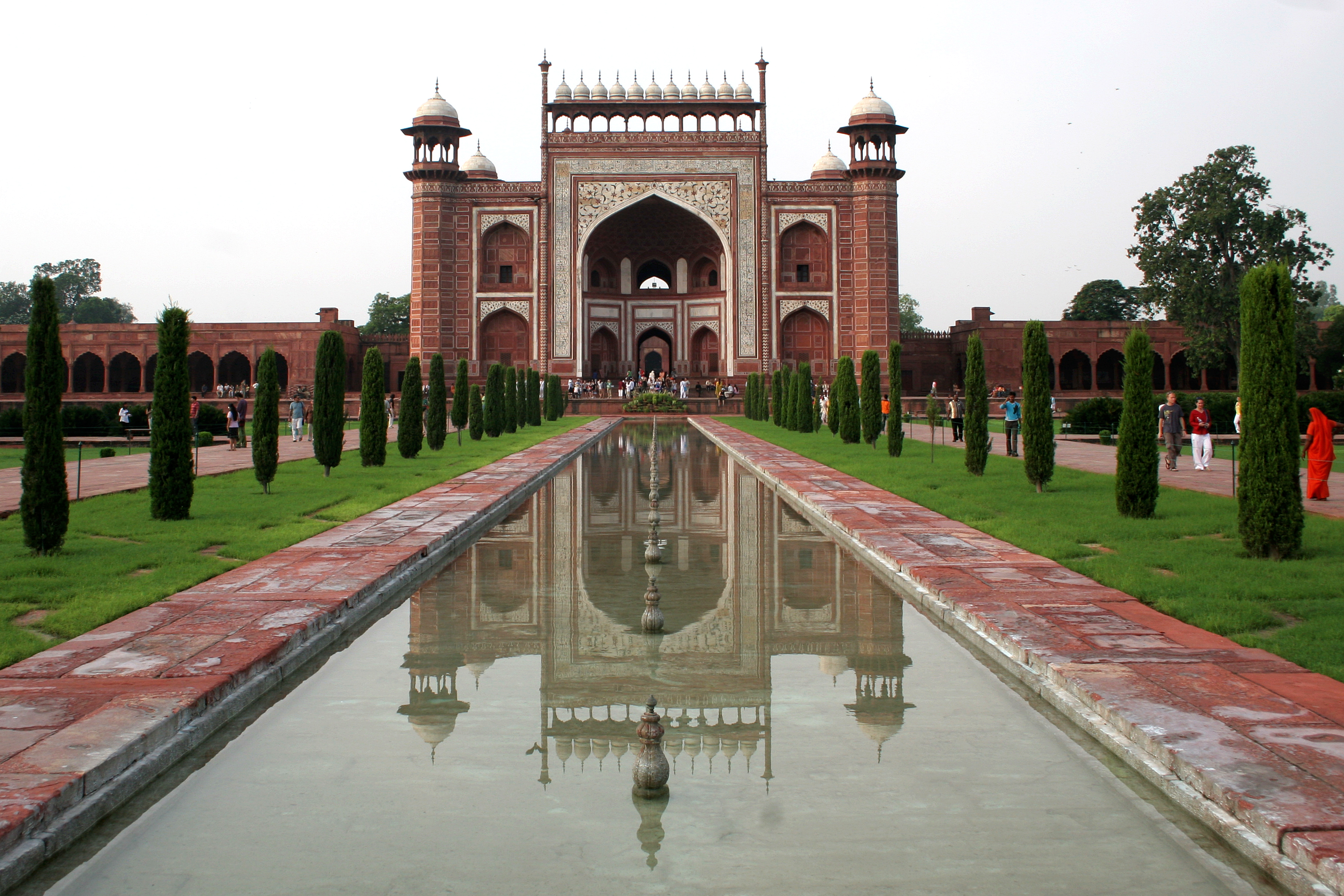 Gate to the Taj Mahal in Agra, India.